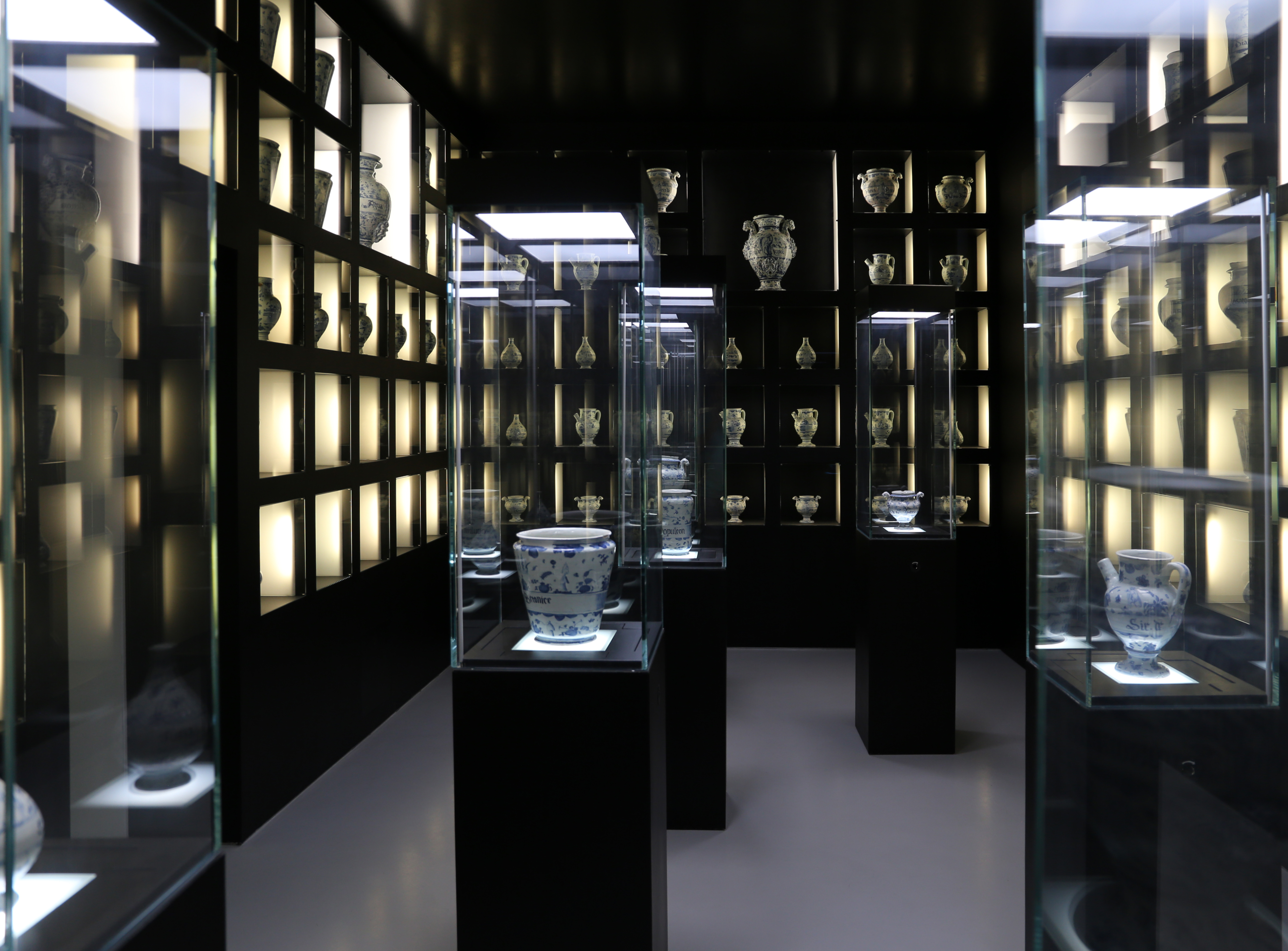 Museo della ceramica di Savona